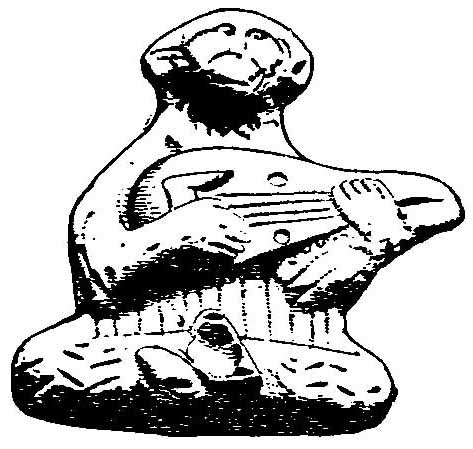 Drawing of a sculpted figure playing on a pear-shaped rebab. Excavated from Khotan.